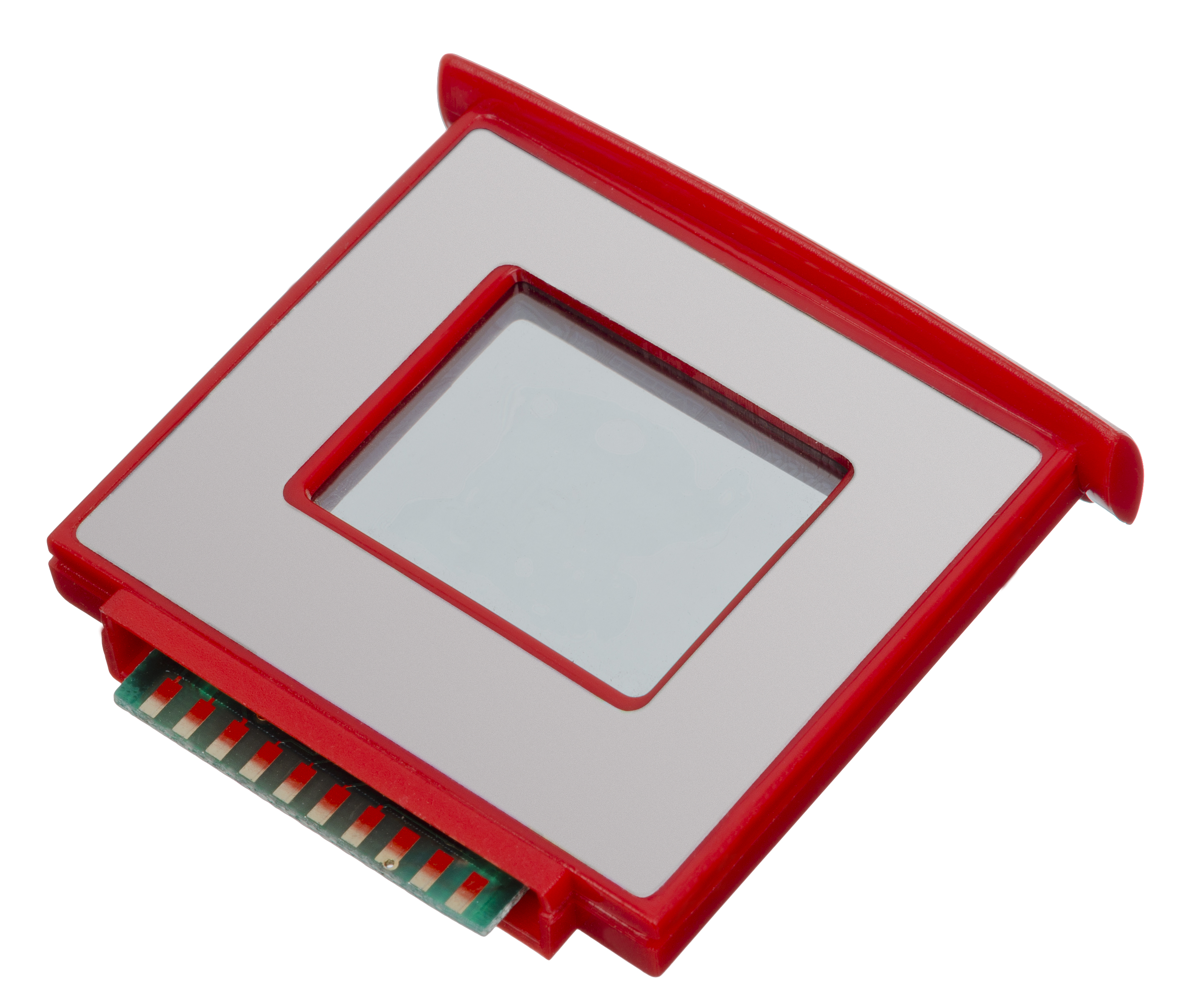 A cartridge for the Tiger R-Zone, a portable game console released in 1995. The system was not much different than Tiger's line of dedicated handheld LCD games, and uses swappable LCD screen cartridges.